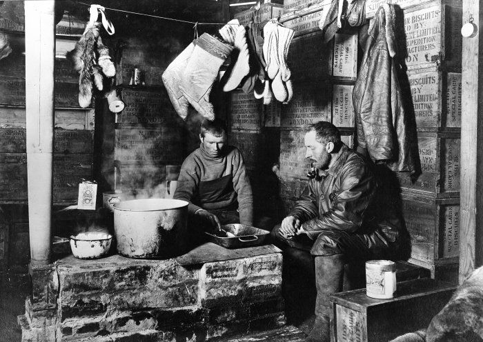 Robert Scott expedition in Antarctic. Cecil Meares (right) and Dimitri Girev at the blubber stove in the Discovery Hut at Hut Point.